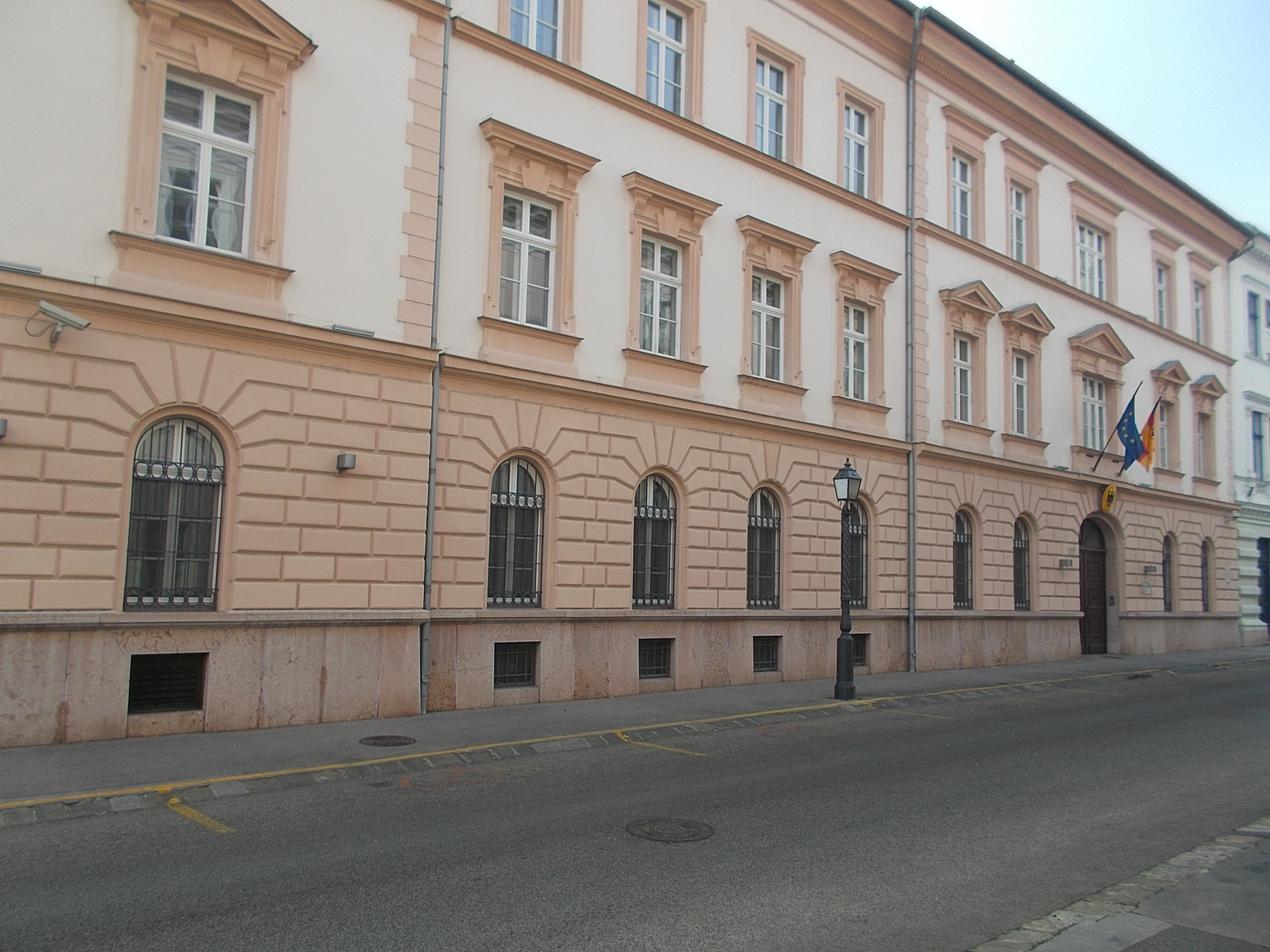 An eclectic corner house, now Embassy of the Federal Republic of Germany (Botschaft der Bundesrepublic Deutschland). Tóth Árpád Promenade side. - 64-66. Úri Street, 36 Tóth Árpád Promenade, Várnegyed neighbourhood, Budapest District I.